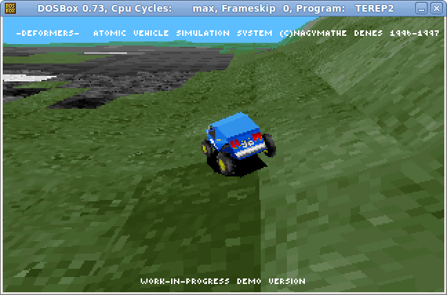 Screenshot of the CLASSIC videogme "Terep 2"[1996] by Nagymathe Denes